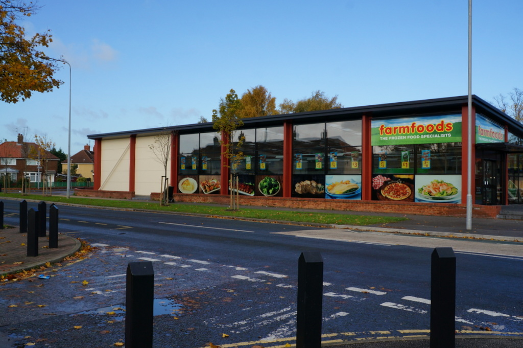 Farmfoods on Greenwood Avenue, Hull